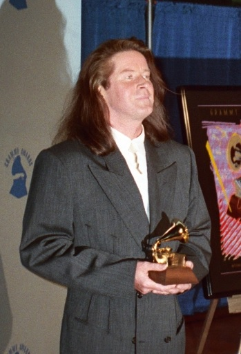 1990 Grammy Awards NOTE: Permission granted to copy, publish, broadcast or post any of my photos, but please credit "photo by Alan Light" if you can. Thanks. Scanned from the original 35MM film negative.